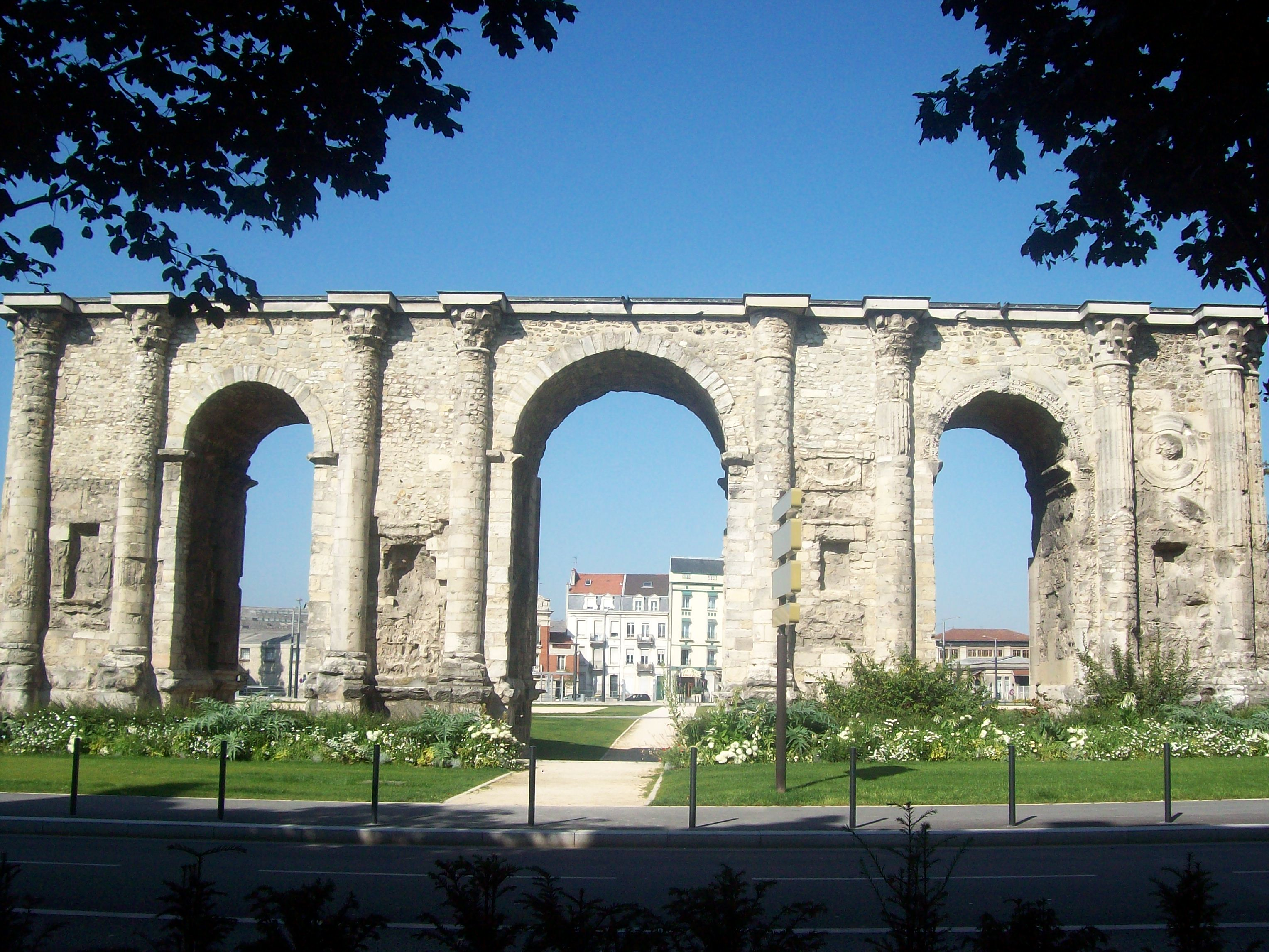 La Porte Mars — Reims, Champagne-Ardenne, France